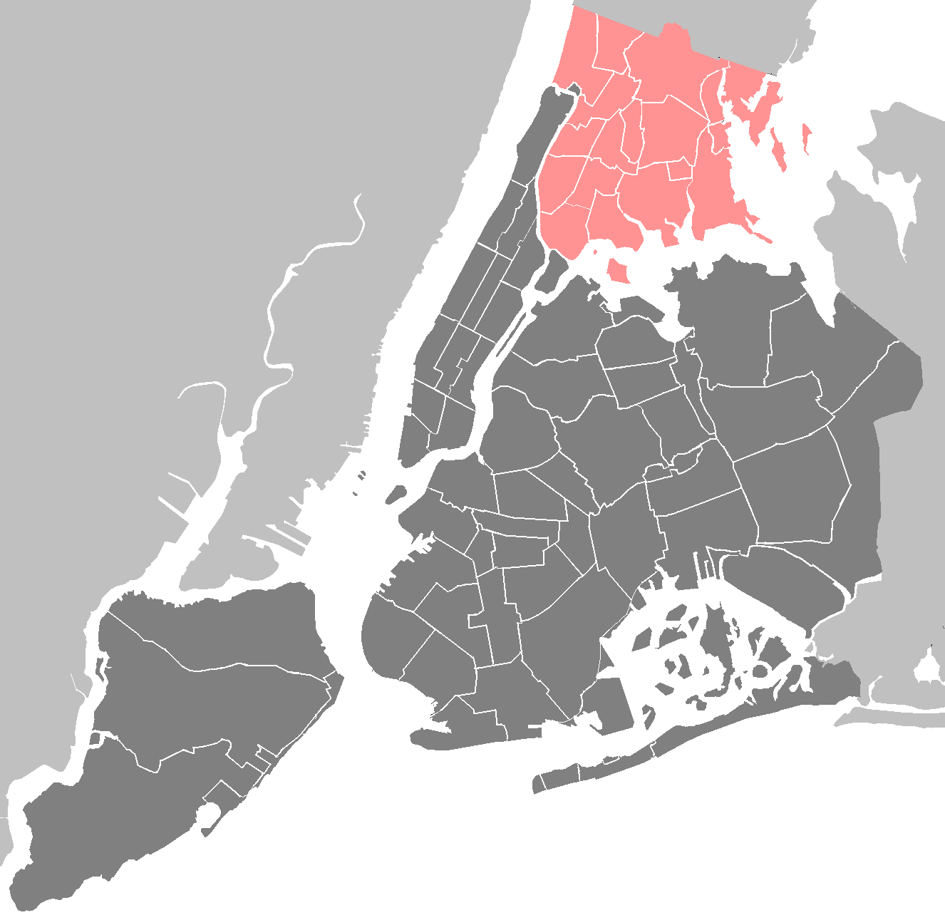 Map of New York City with The Bronx highlighted